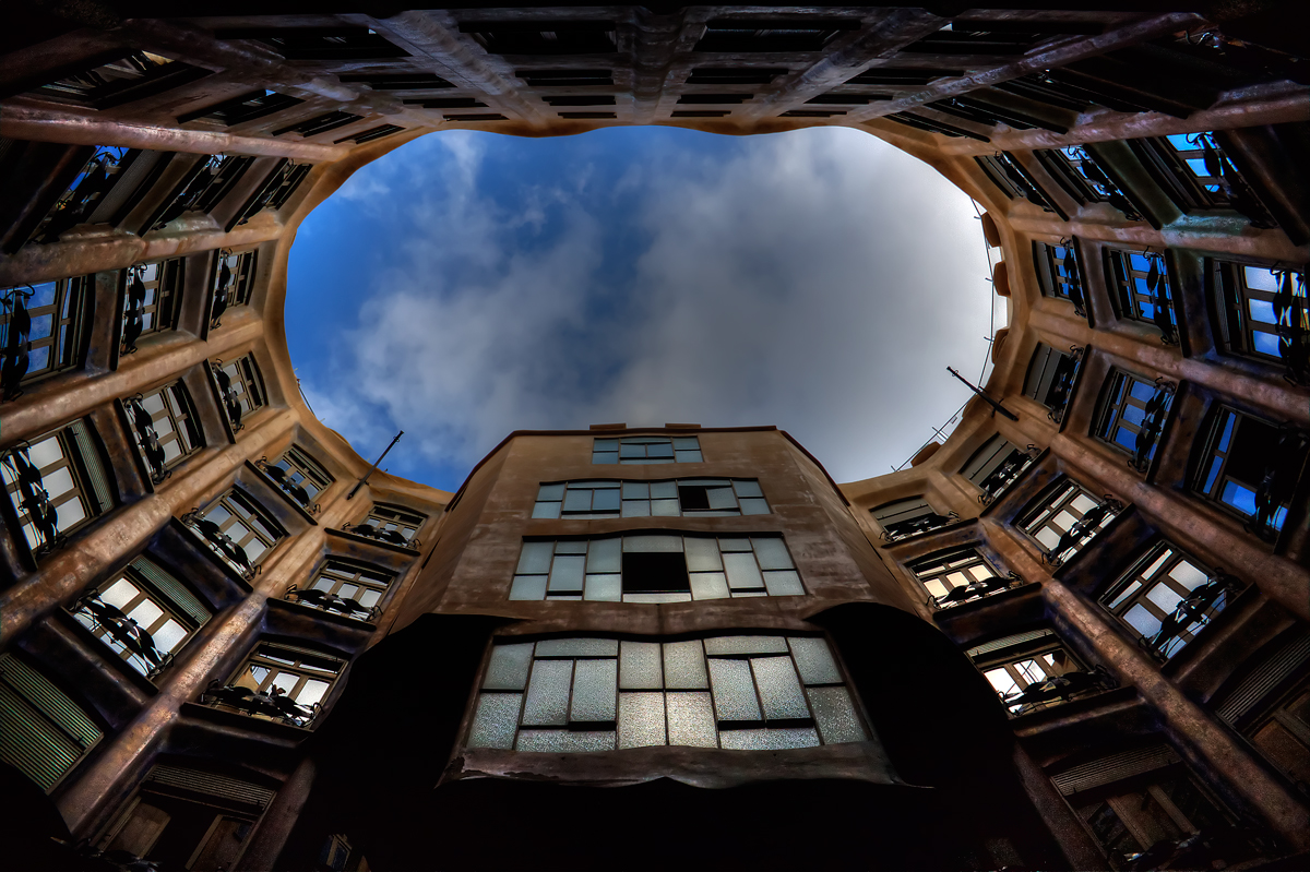 dziedziniec